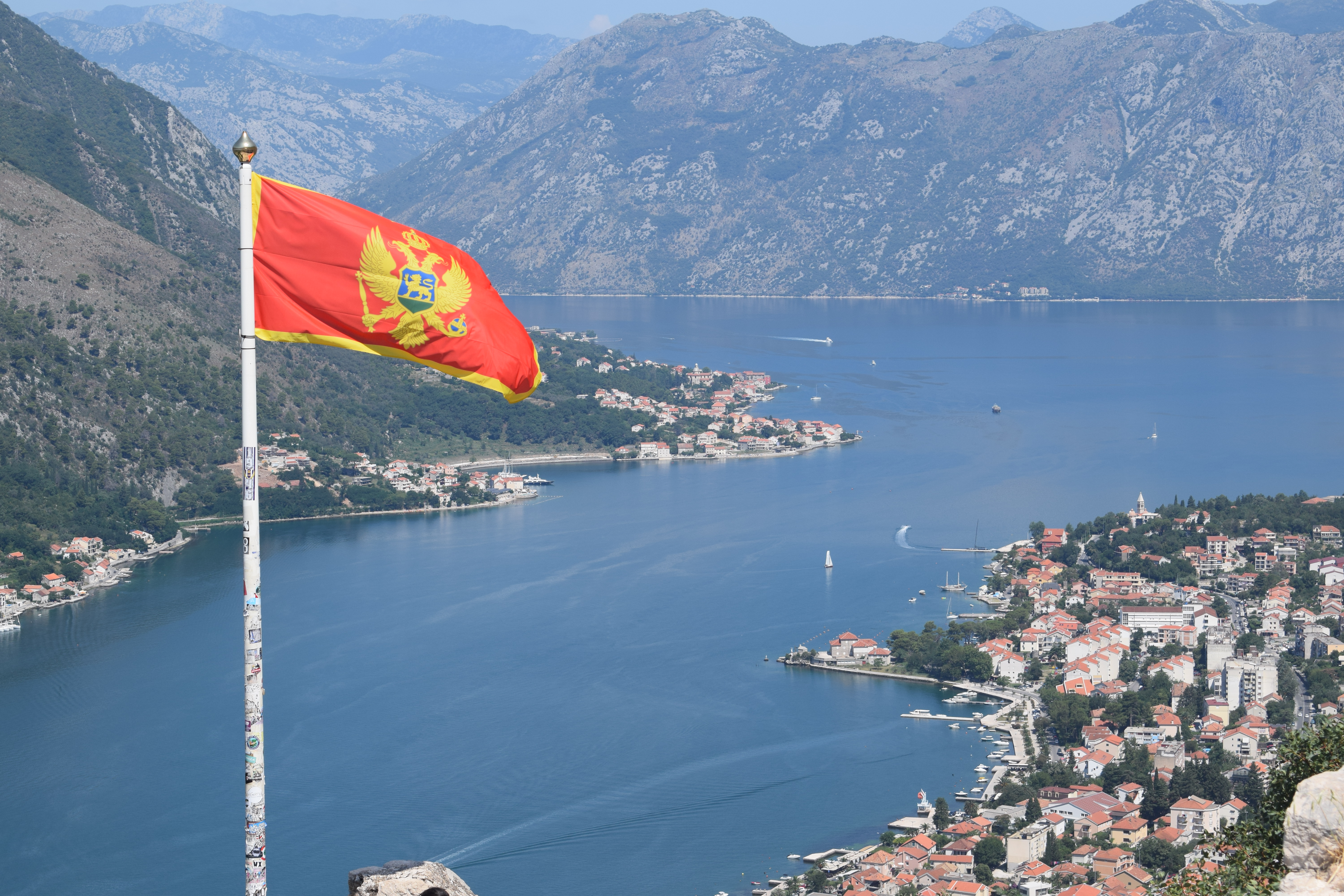 Kotor City and Bay in Montenegro